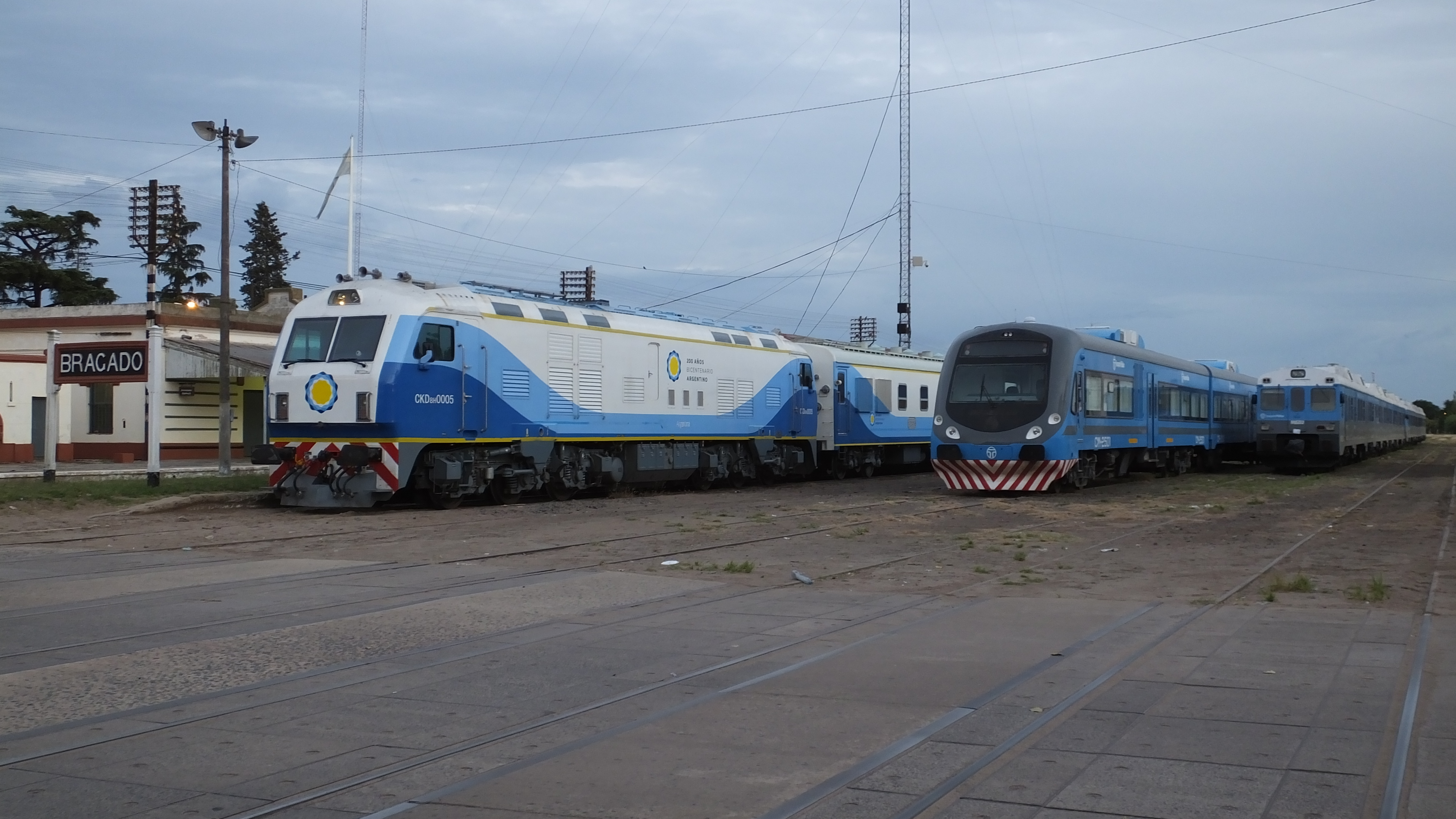 Materfer trains stored in Bragado train station next to a CNR CKD8.